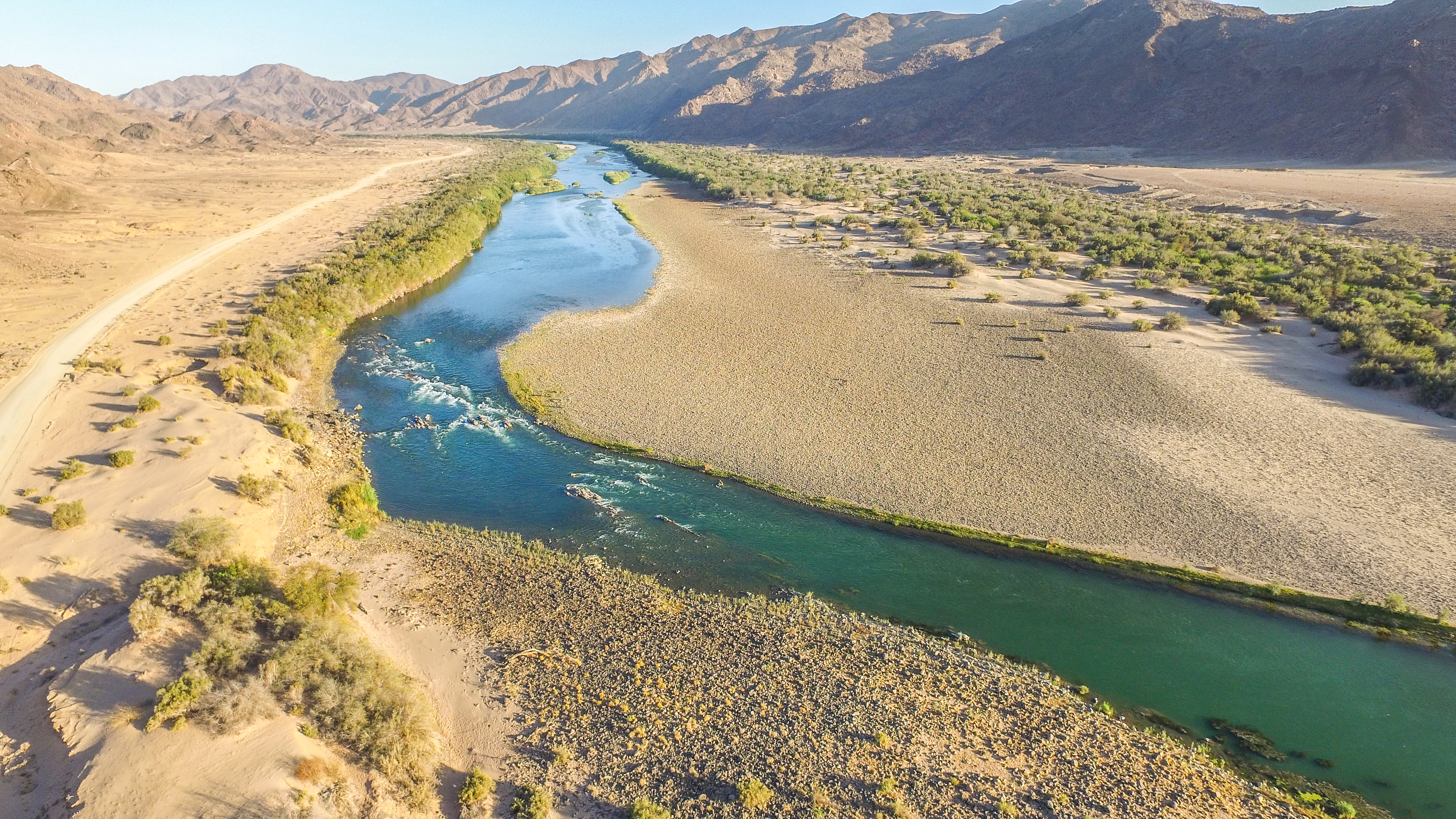 Fish River is located in the south of Namibia. It is the largest canyon in Africa, as well as the second most visited tourist attraction